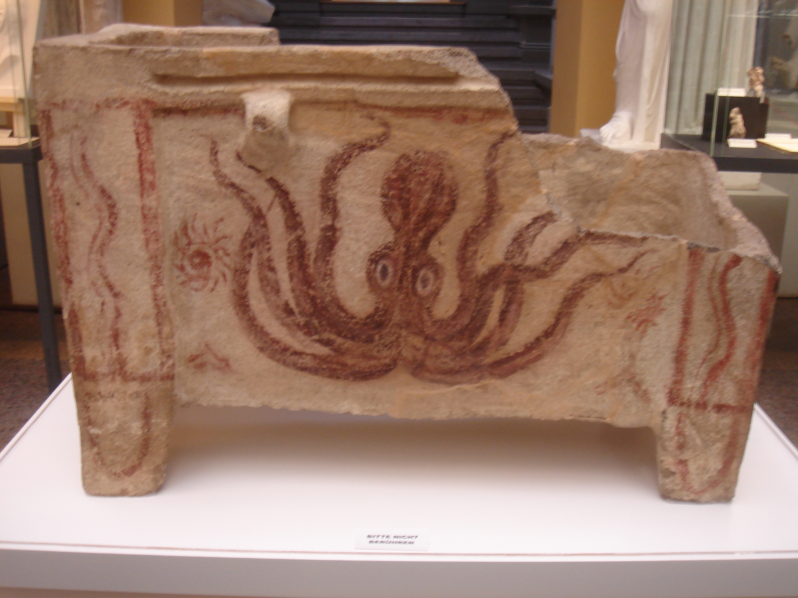 Minoan Larnax in maritime style, from the Akademisches Kunstmuseum in Bonn.